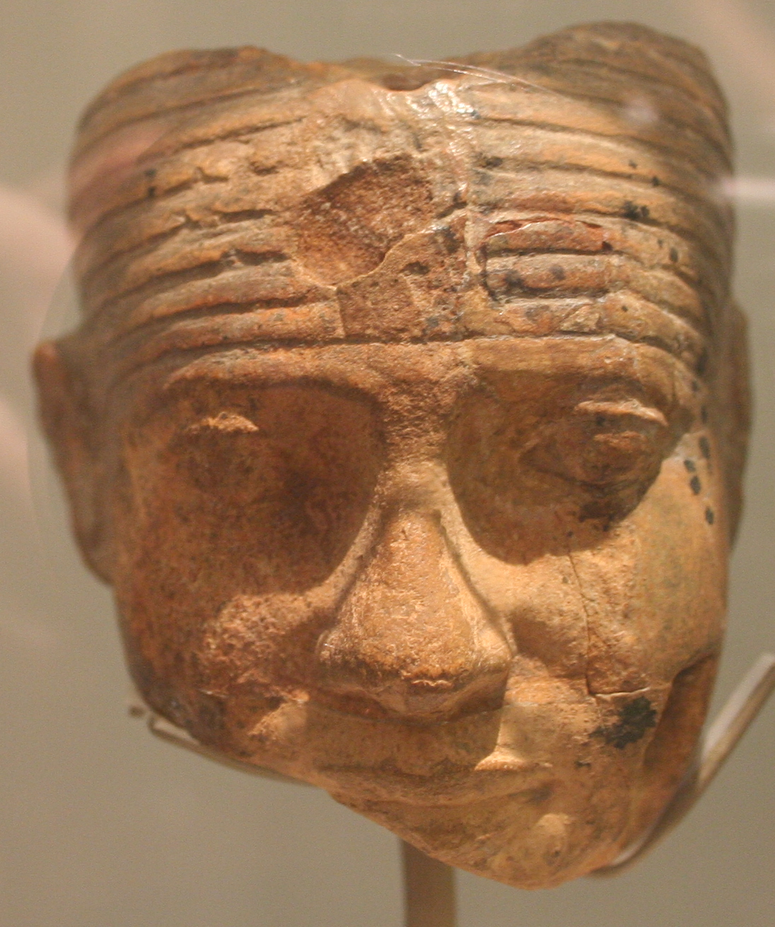 Petrie Museum